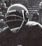 Photograph of Ron Johnson, University of Michigan running back in 1967 Navy game in which he rushed for 270 yards